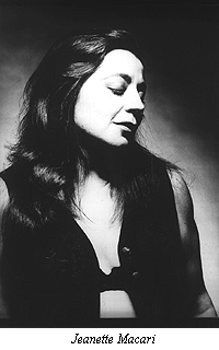 singer Jeanette Macari